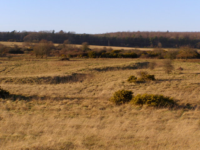 Prehistoric enclosure, Martin Down The earthworks in the centre of this photograph are on the north-east side of the rectangular enclosure on the slopes of Martin Down. This rectangular enclosure was excavated by General Pitt-Rivers in 1895 and the existing earthworks are his reconstruction of the site. It is 90m long and 60m wide and believed to date from the mid Bronze Age, with continued use by the Romano-British. The site provides the site-type for the 'Martin Down style enclosure' in the English Heritage Monument Class Descriptions.